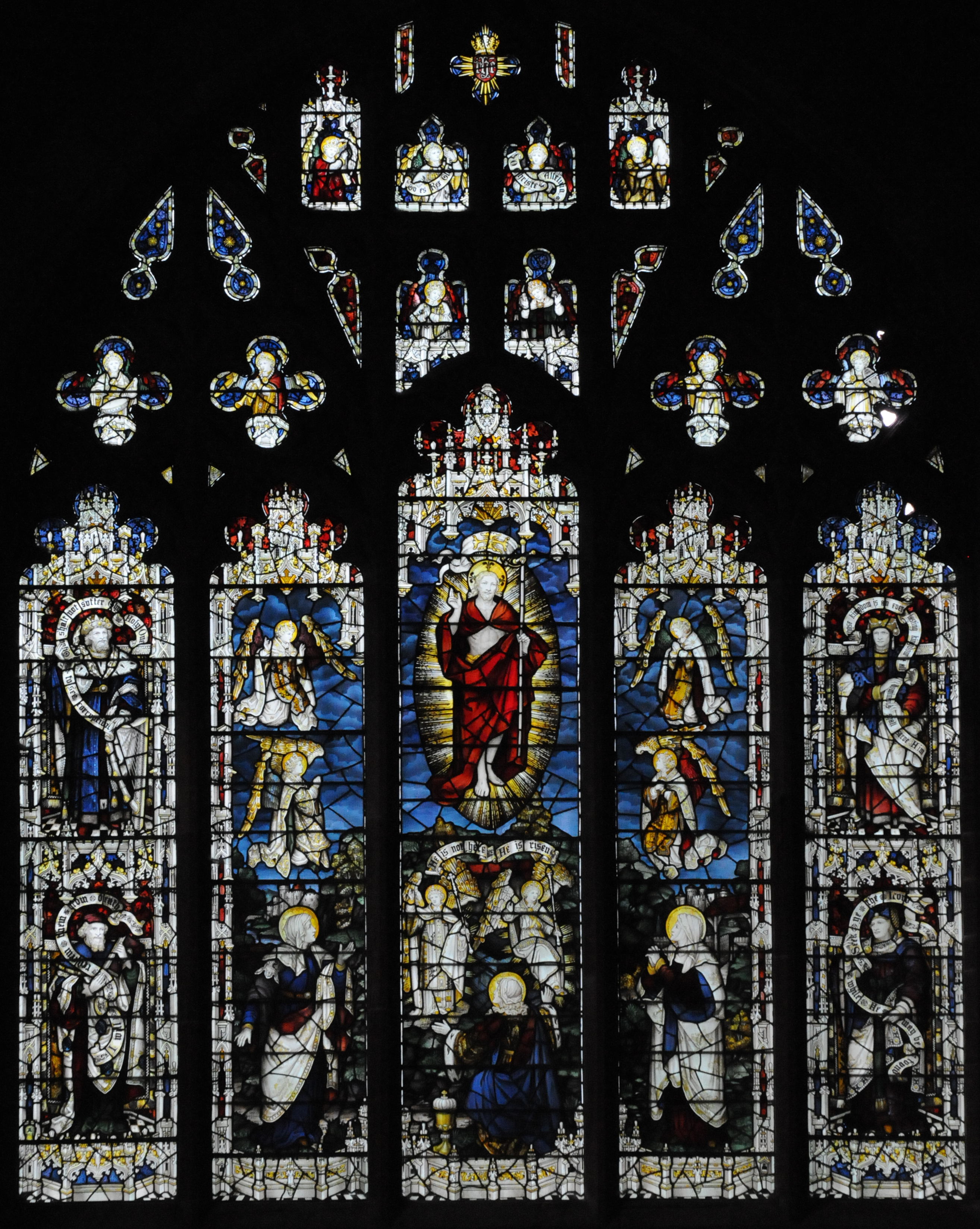 West Window of St John's Church Barmouth, Wales by C. E. Kemp